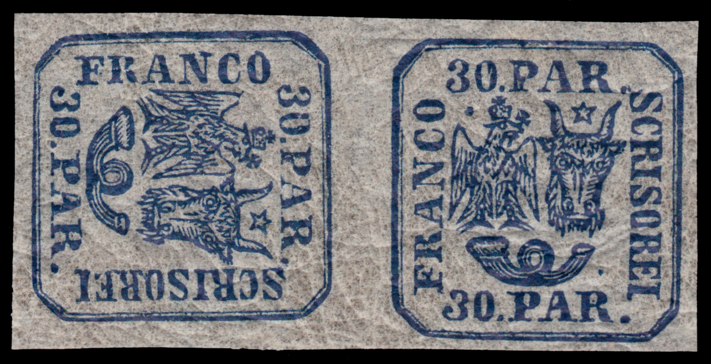 An example of 'timbre couché': two postage stamp of Wallachia and Moldavia, 30 parale, blue coat of arms and posthorn, 1862